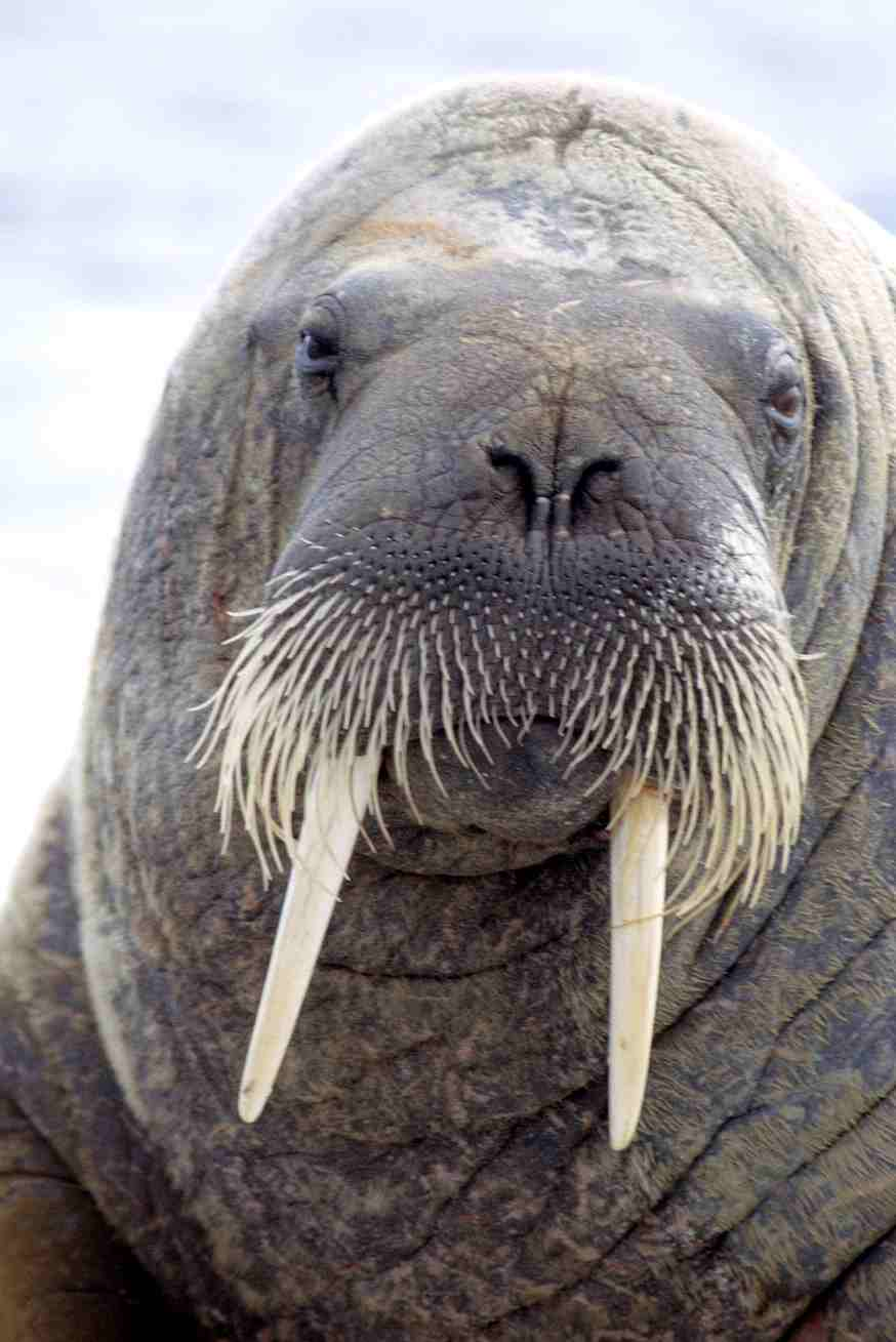 Old lonely bull, Atlantic walrus (Odobenus rosmarus rosmarus), on ice flow in Foxe Basin (Nunavut, Canada)